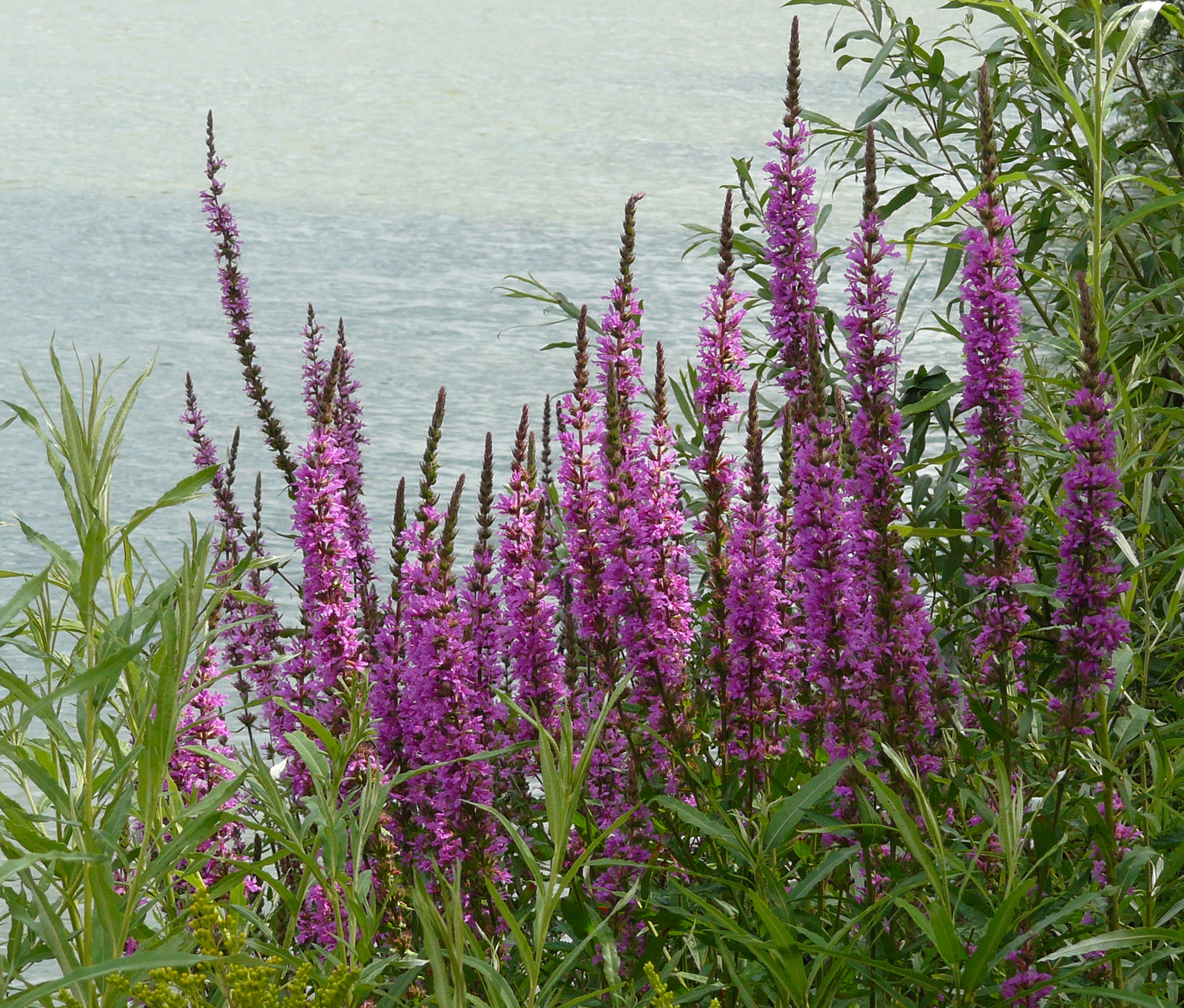 Lythrum salicaria in early june on the Middle Rhine in Germany